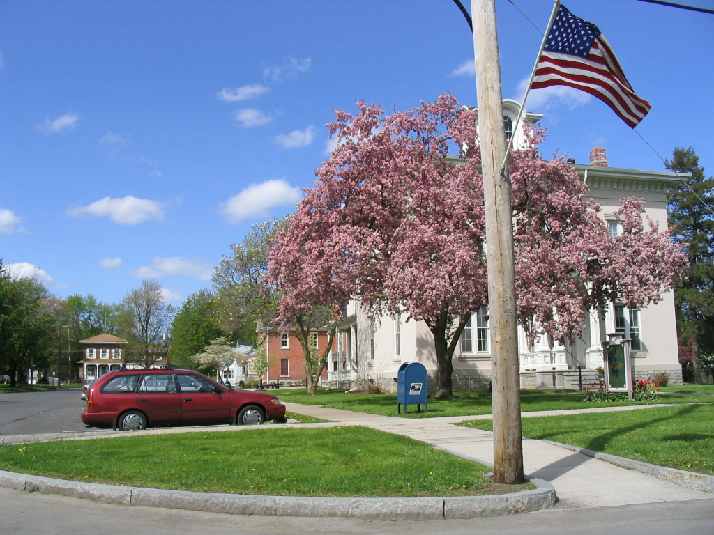 photo of the Village of Liverpool, NY, taken by me on May 7, 2004